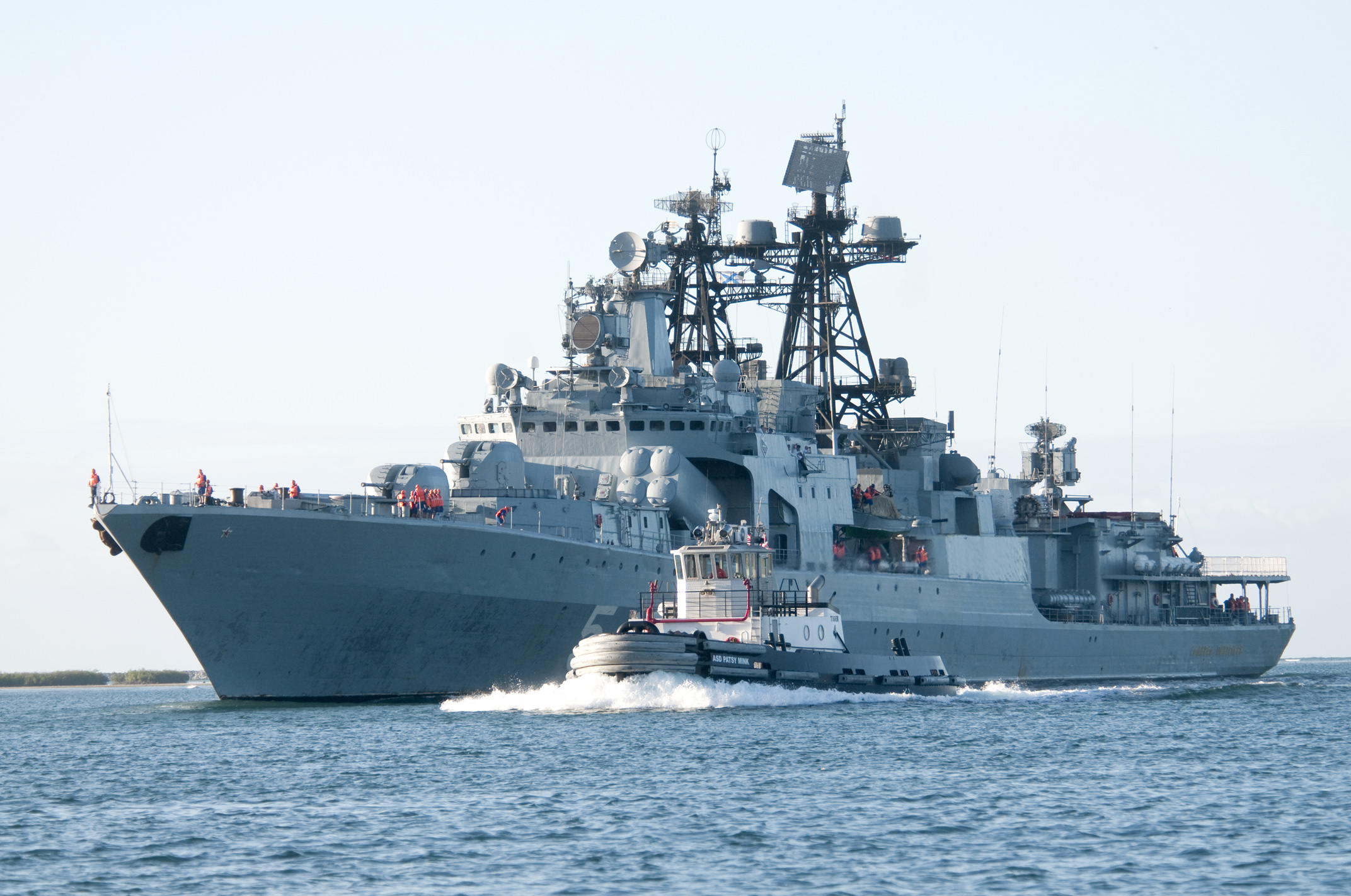 The Russian Navy Udaloy-class destroyer RFS Admiral Panteleyev (BPK 548) arrives at Joint Base Pearl Harbor-Hickam to participate in the Rim of the Pacific (RIMPAC) exercise 2012. Twenty-two nations, 42 ships, six submarines, more than 200 aircraft and 25,000 personnel will participate in the biennial RIMPAC from June 29 to Aug. 3, in and around the Hawaiian Islands. The world’s largest international maritime exercise, RIMPAC provides a unique training opportunity that helps participants foster and sustain the cooperative relationships that are critical to ensuring the safety of sea-lanes and security on the world’s oceans. RIMPAC 2012 is the 23rd exercise in the series that began in 1971.